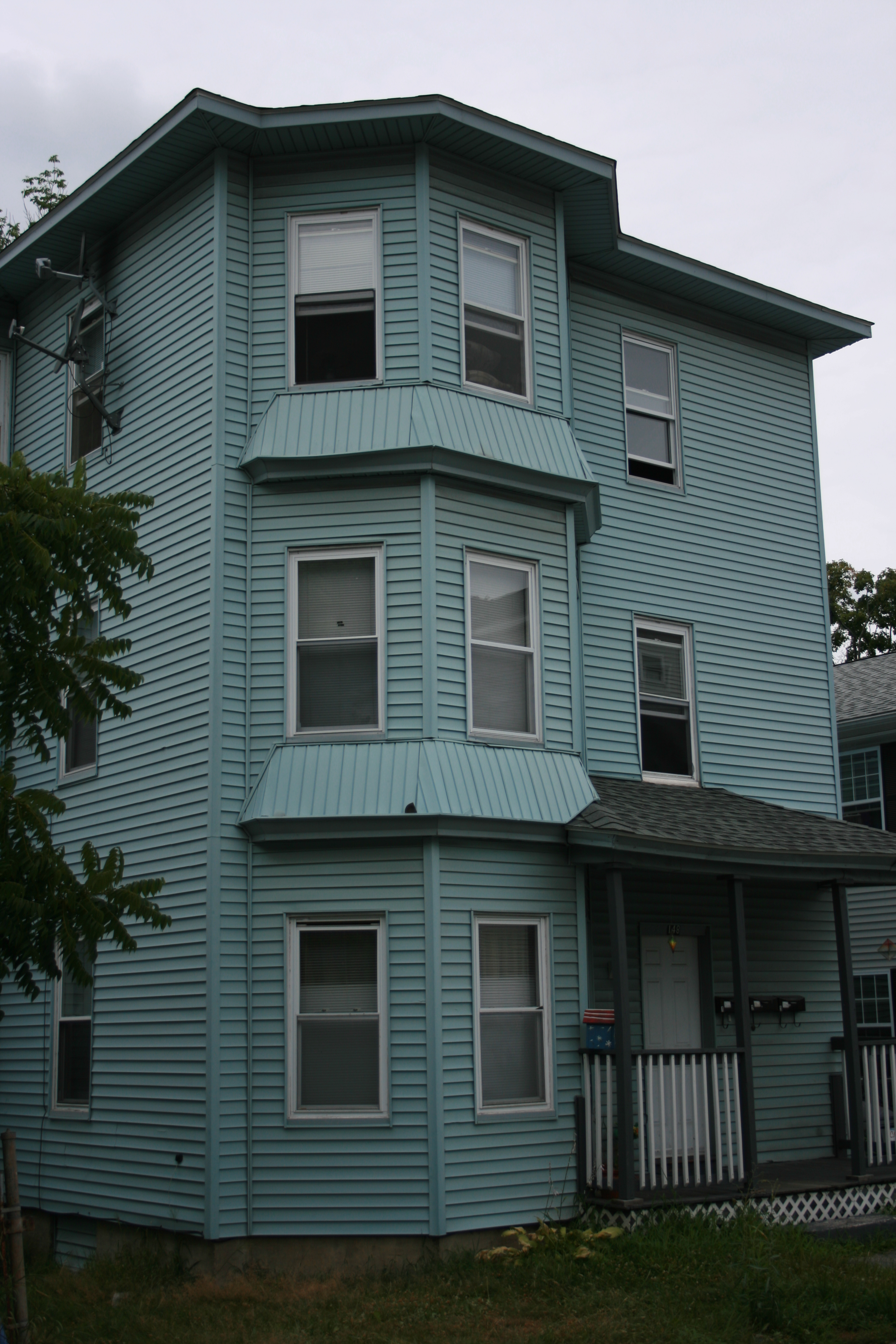 A triple-decker house on Eastern Avenue, Worcester, Massachusetts. It is not the John Johnson triple-decker, which has a centered projecting bay section.